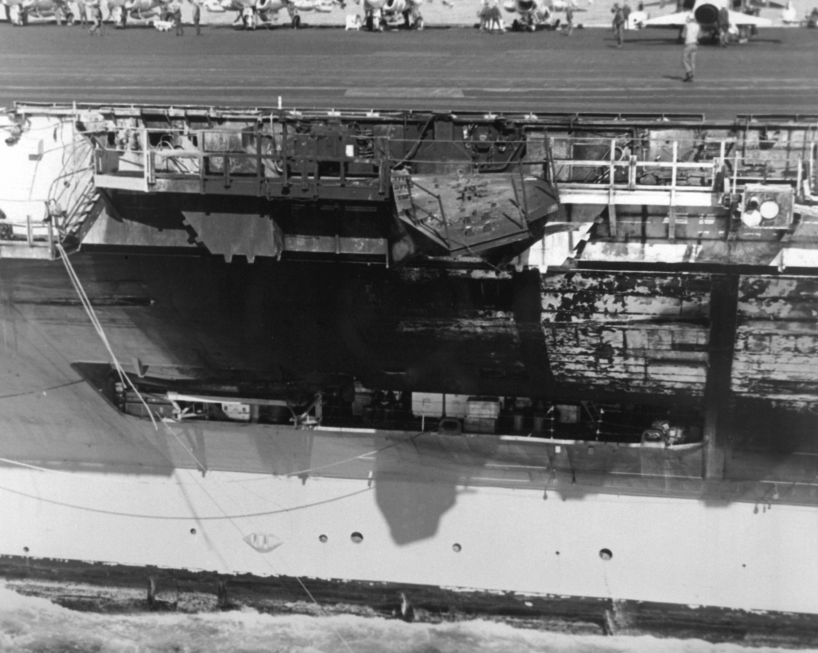 A view of damage sustained by the aircraft carrier USS JOHN F. KENNEDY (CV 67) when it collided with the guided missile cruiser USS BELKNAP (CG 26) during night operations on Nov. 22, 1975.